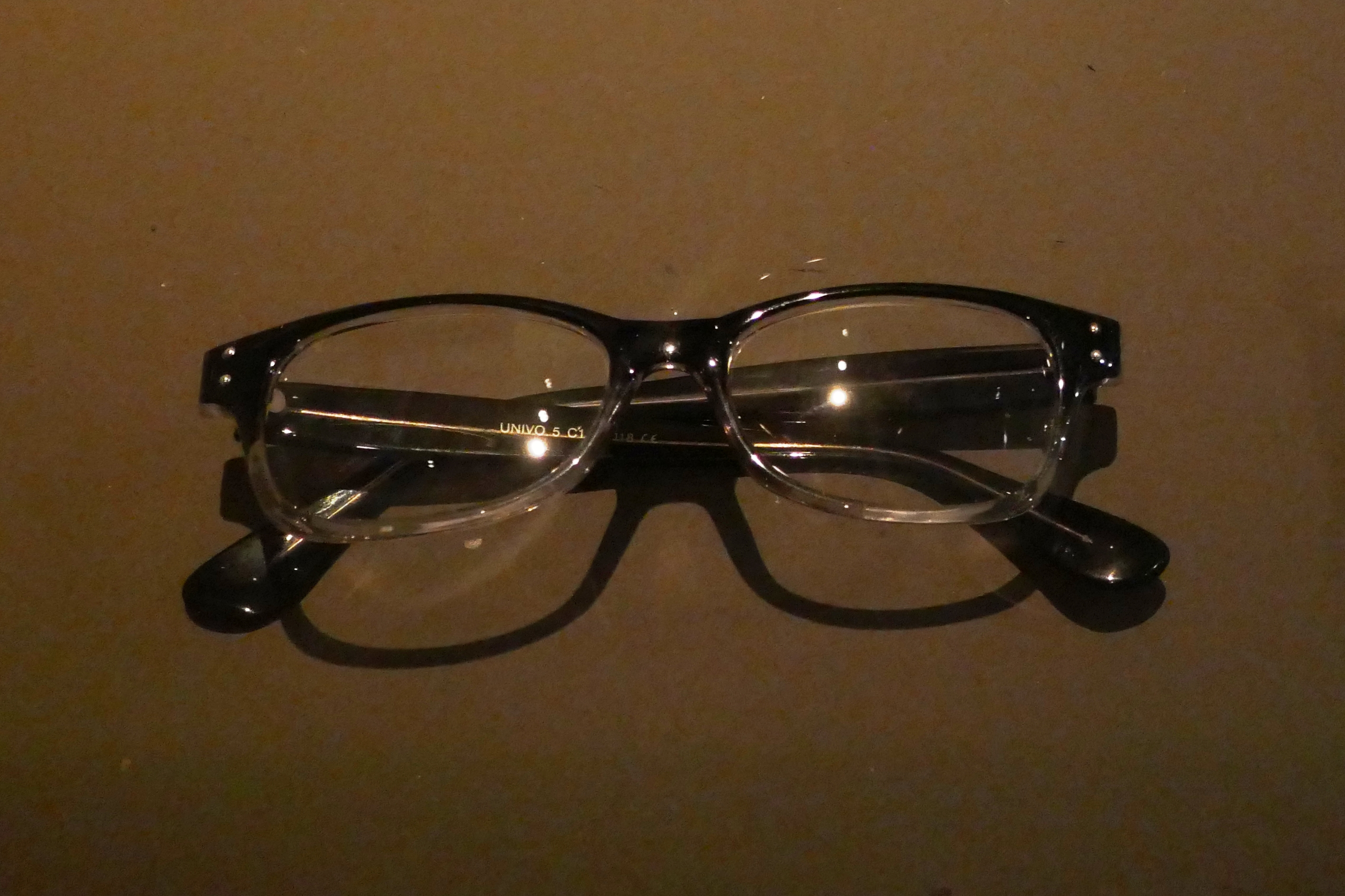 Q (Ben Whishaw) Glasses from the movie "Spectre" National Film Museum, London - Bond in Motion Exhibition (2017)